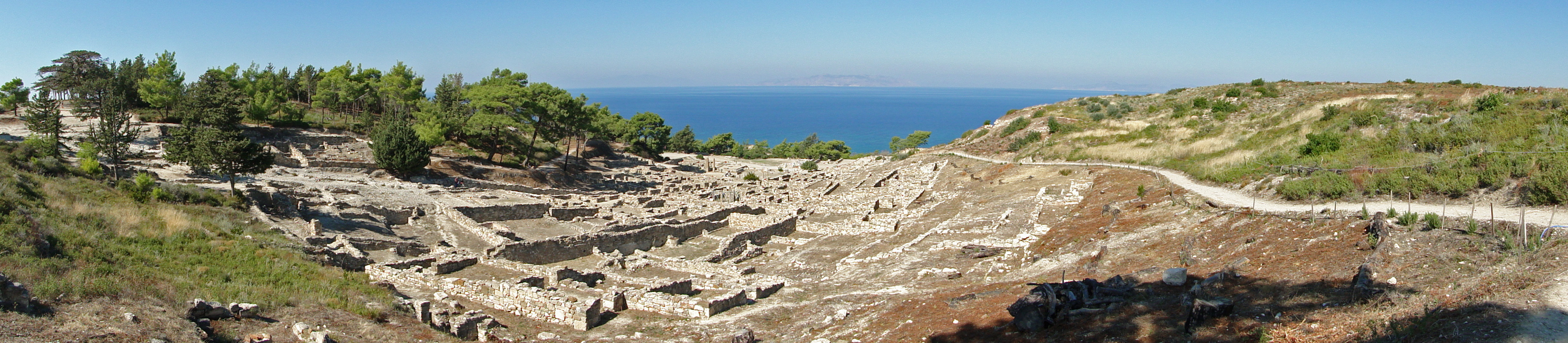 Panoramic view of the site of Kameiros looking North, Rhodes, Greece